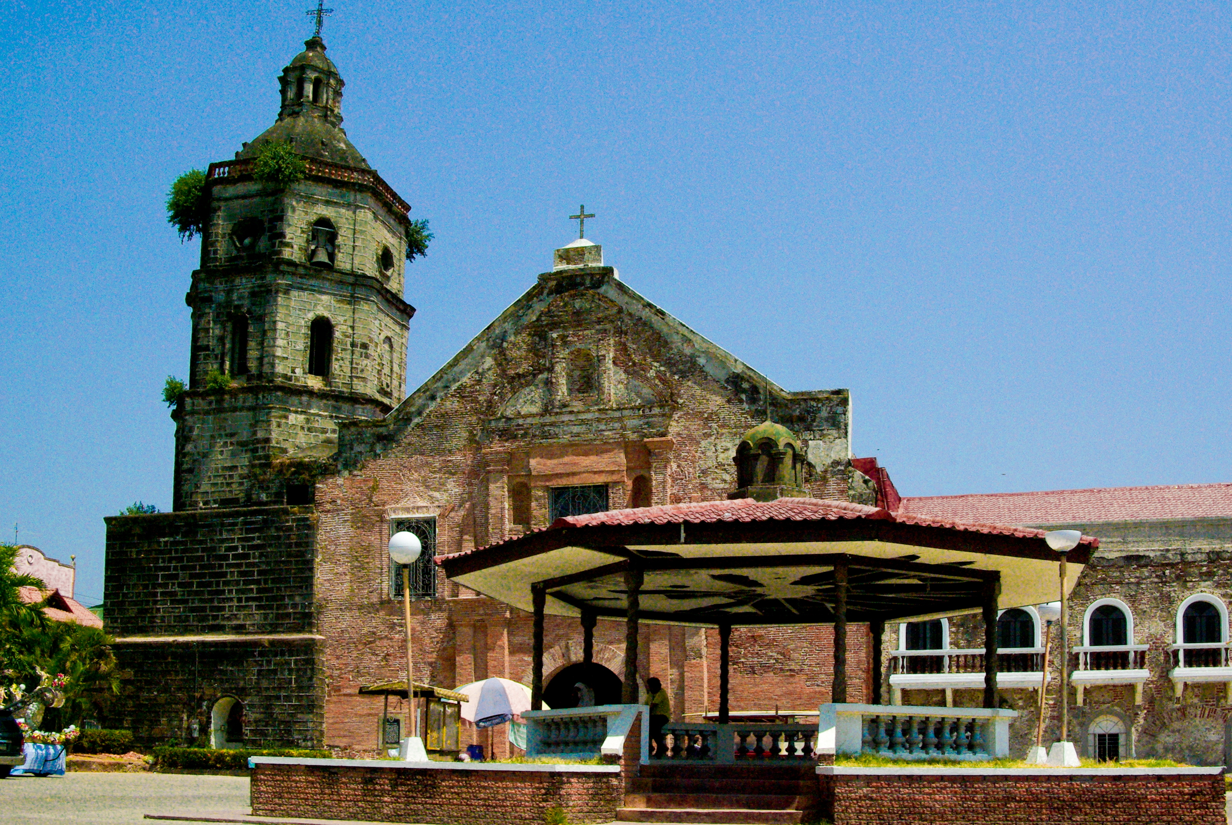 one of the oldest church in lubao,pampanga ,san agustine church.